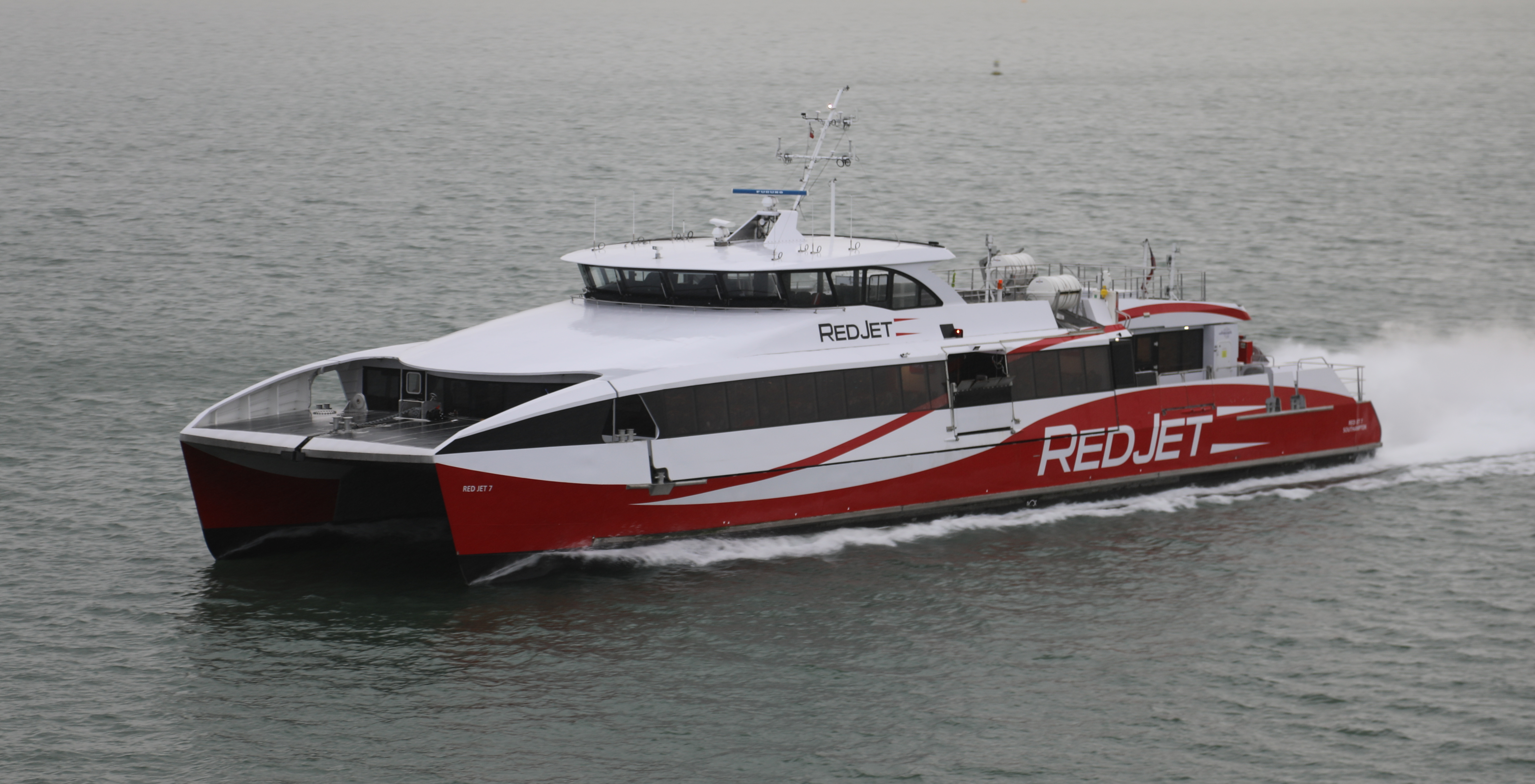 Photo of red jet 7 at speed on southampton water